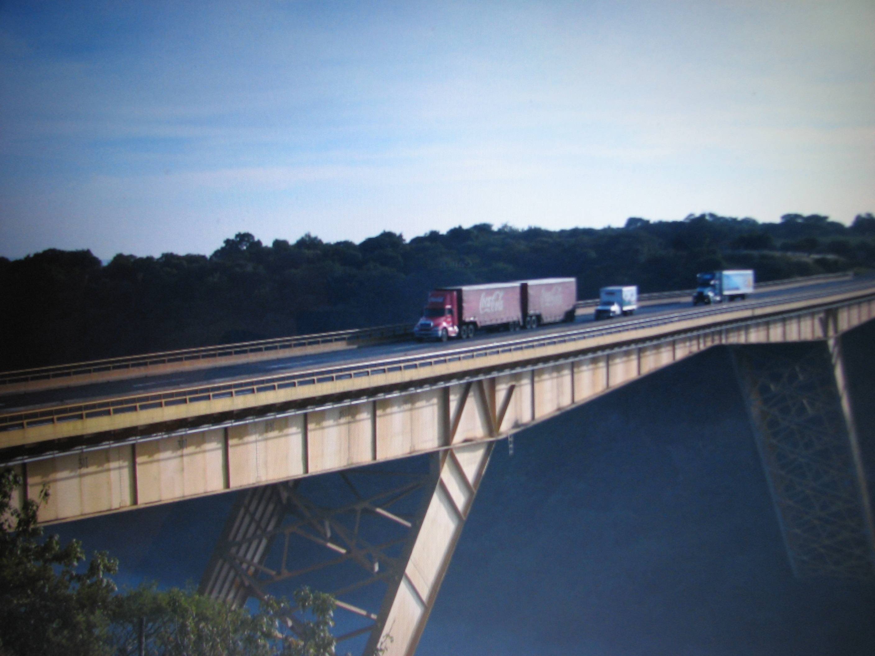 Bridge over Huentitan Canyon connecting municipalities of Zapotlanejo and Guadalajara